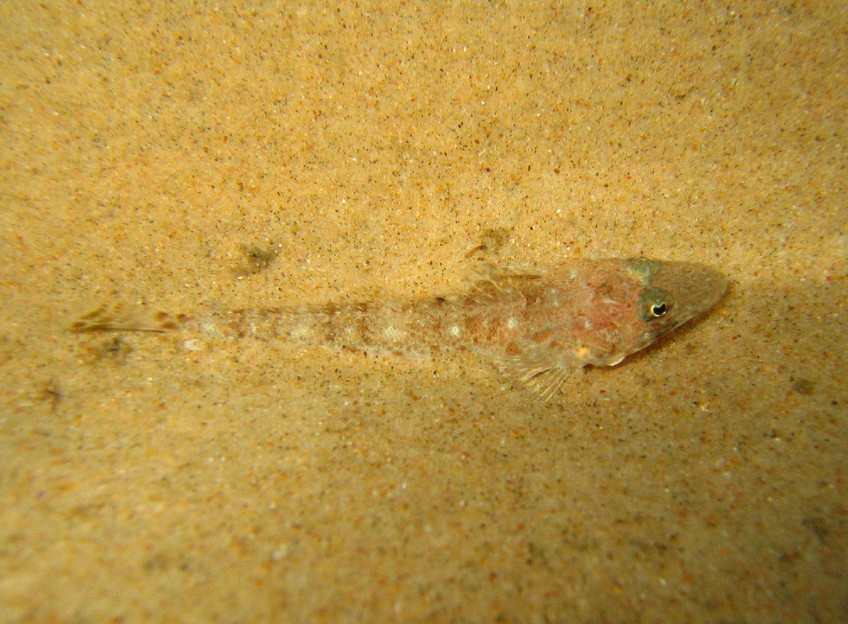 A juvenile Sand Flathead (Platycephalus bassensis). Lady Jane Reef, South West Rocks, NSW